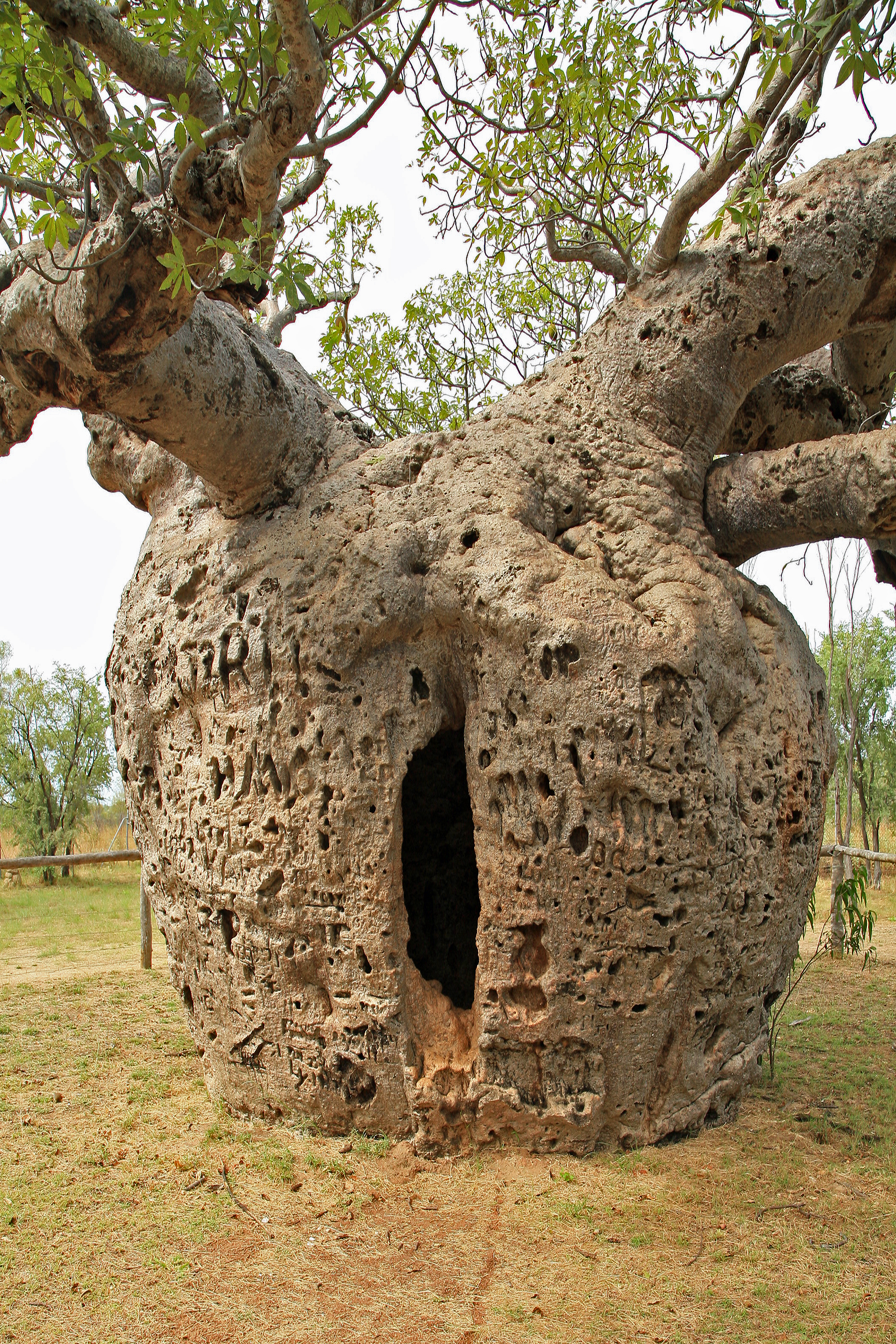 The allegedly about 1,000 years old Boab Tree (a kind of the adonsonia gregorii) has a diameter of 14 meters. The hollow tree is said to have been used a prison for foreign pearl divers.